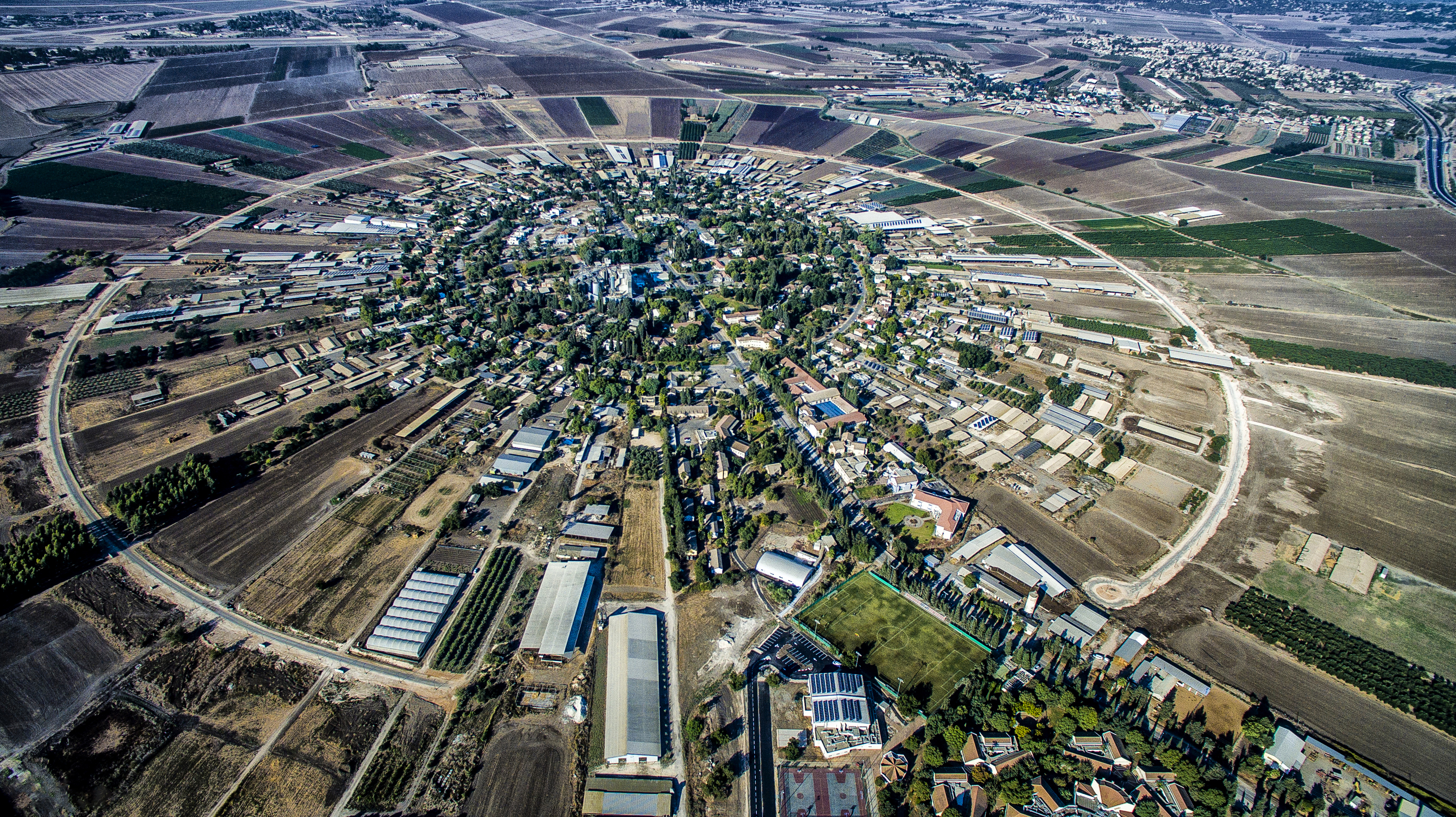 Nahalal is a moshav in northern Israel. The physical layout of Nahalal, devised by architect Richard Kauffmann, became the pattern for many moshavim established before 1948; it is based on concentric circles, with the public buildings (school, administrative and offices, services, and warehouses) in the center, the homesteads in the innermost circle, the farm buildings in the next, and beyond those, ever-widening circles of gardens and fields.